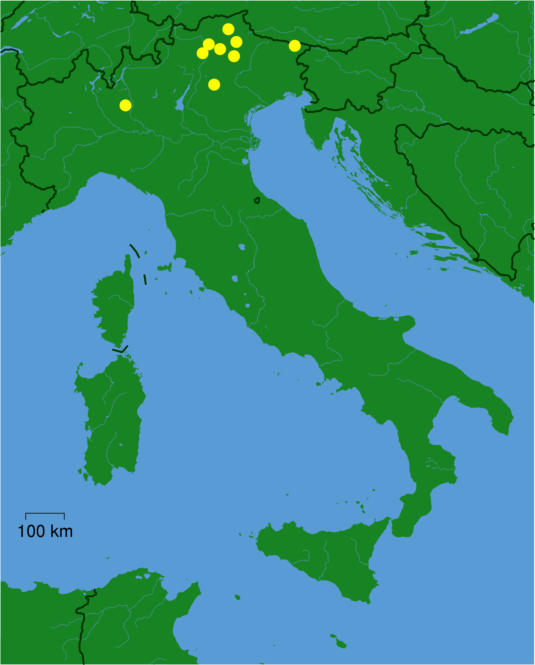 Map of Serie A hockey team locations for the 2006-07 season